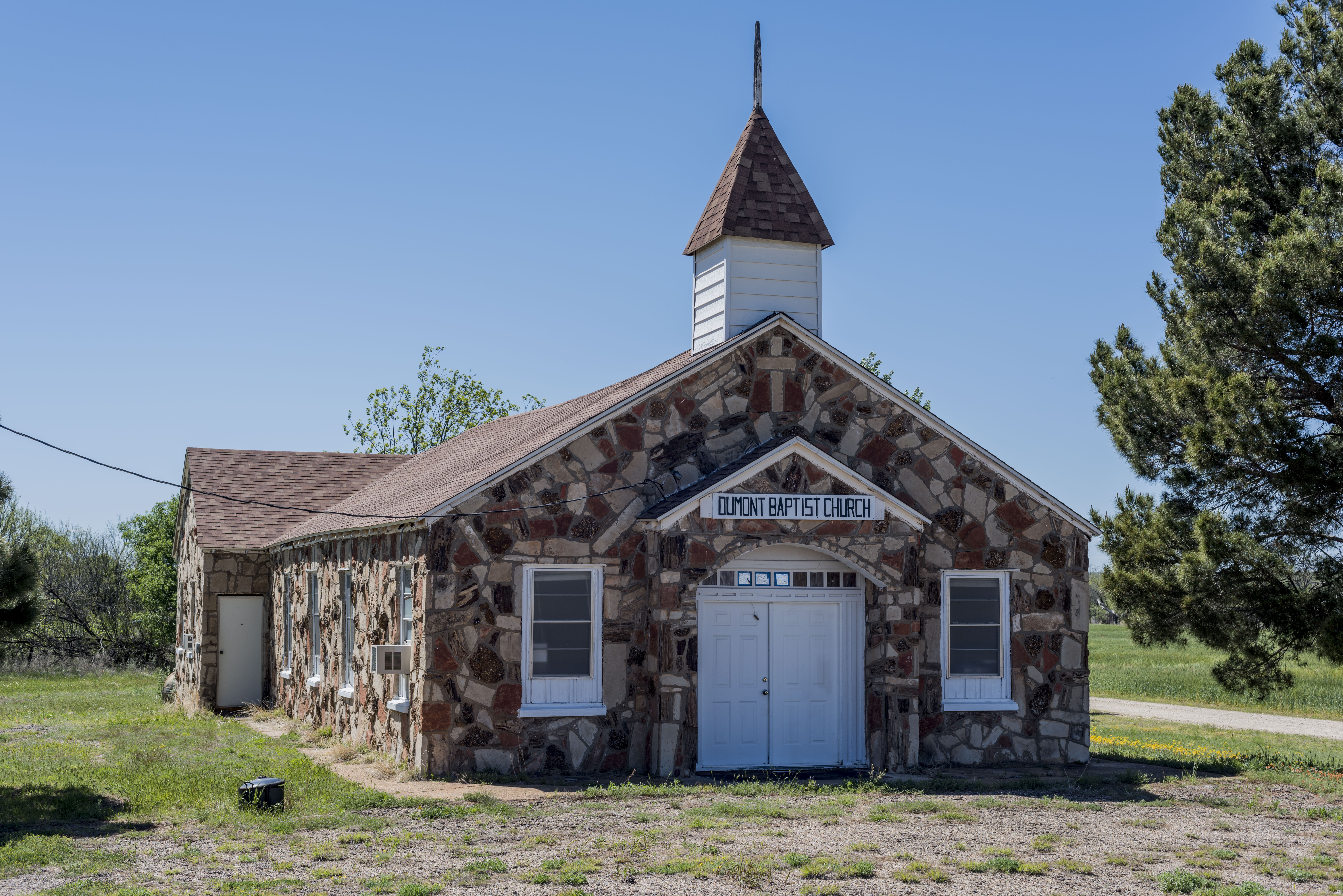 Photograph of the Dumont Baptist Church